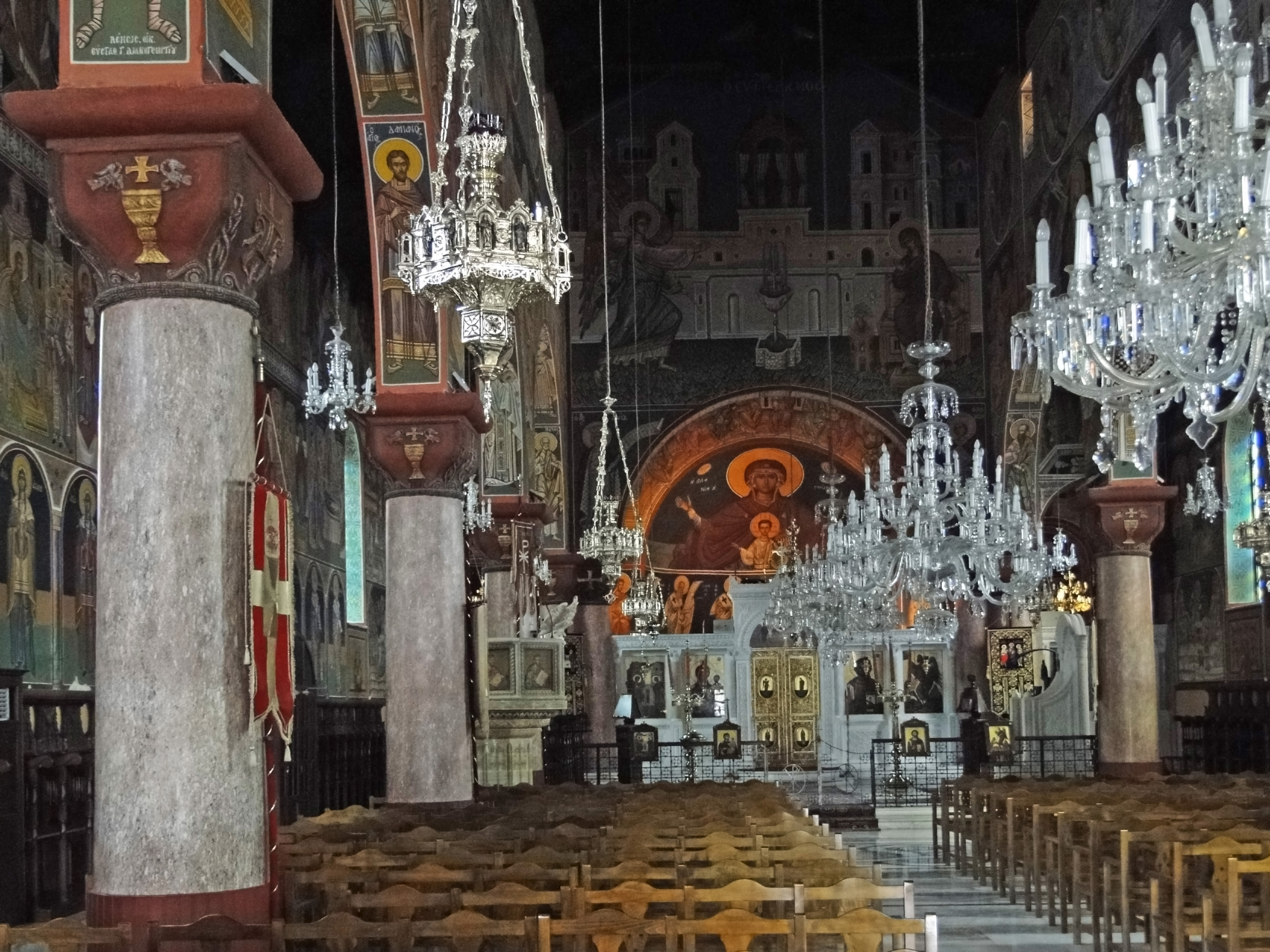 Interior of the Church of the Evangelismos, Rhodes, Greece